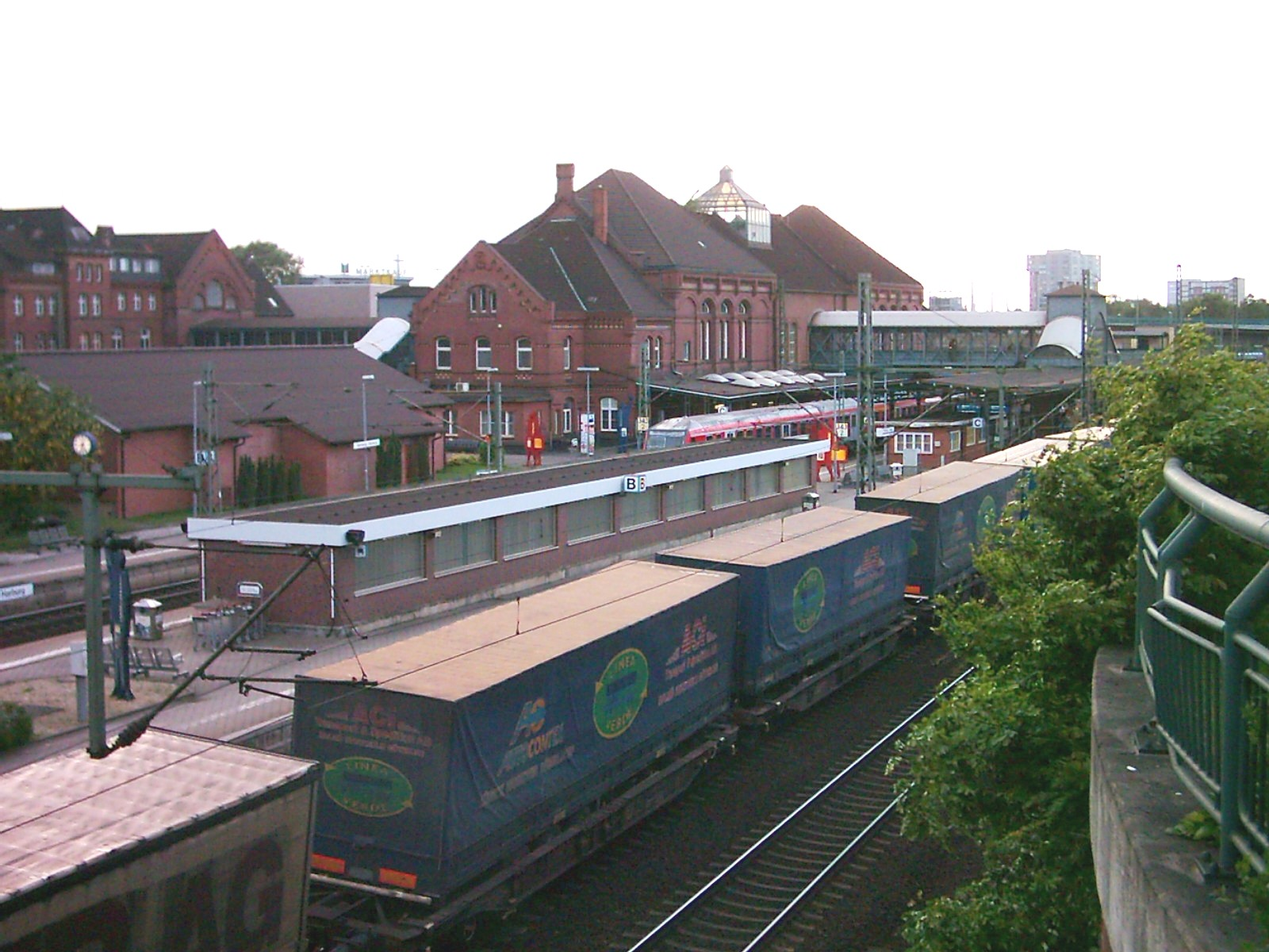 railway station Hamburg-Harburg, Germany.